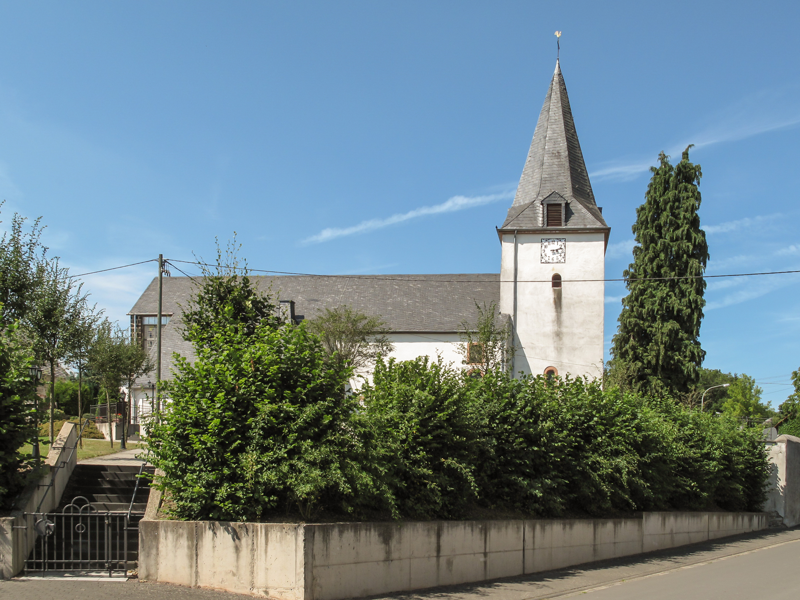 Strotzbüsch, church